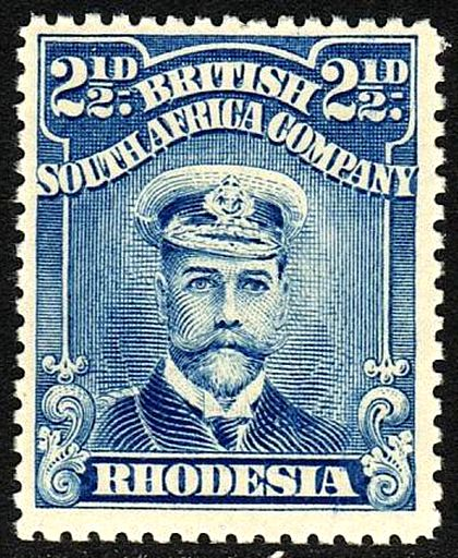 Rhodesia postage stamp, King George V (Admirals), 1913 issue, 2½d, black, Mi #122b, SG #207.